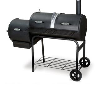 a typical offset bbq smoker